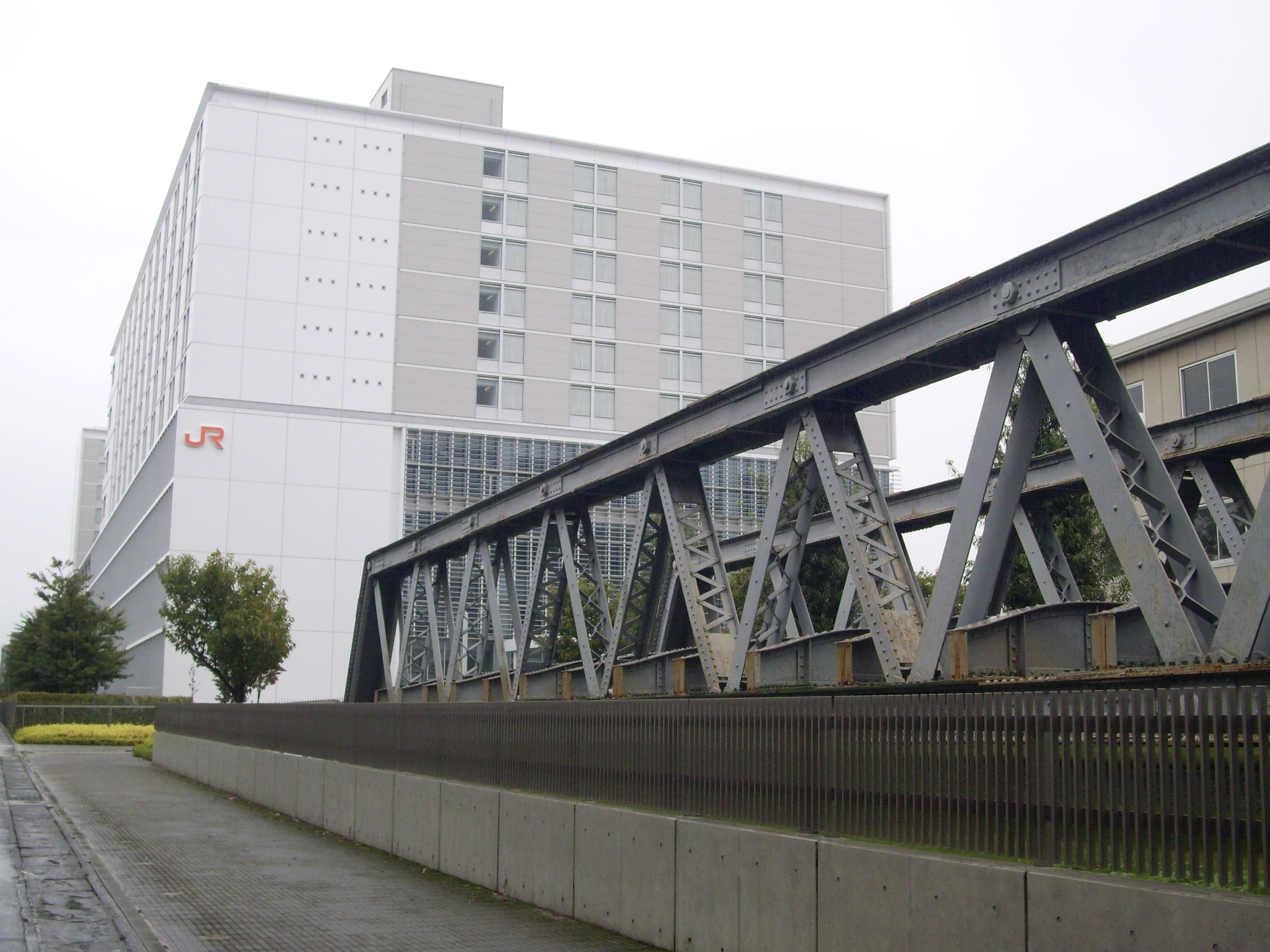 JR Central General Training Center in Mishima City, Shizuoka Prefecture, Japan